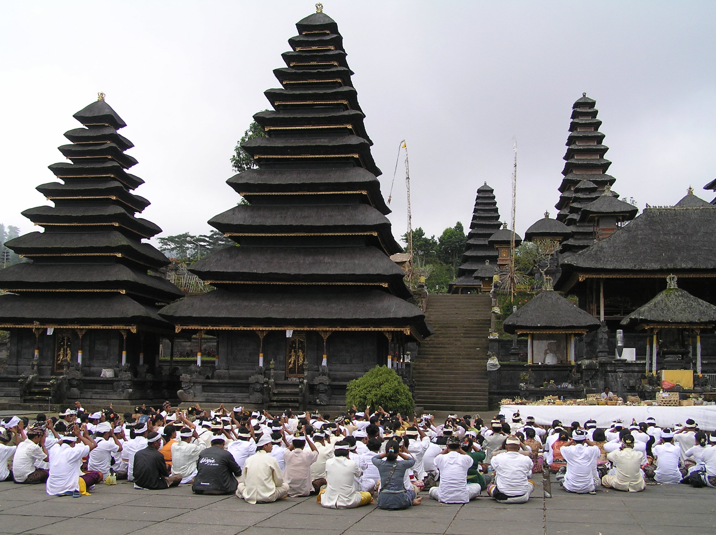 A prayer ceremony at Bali's Bekasih Temple